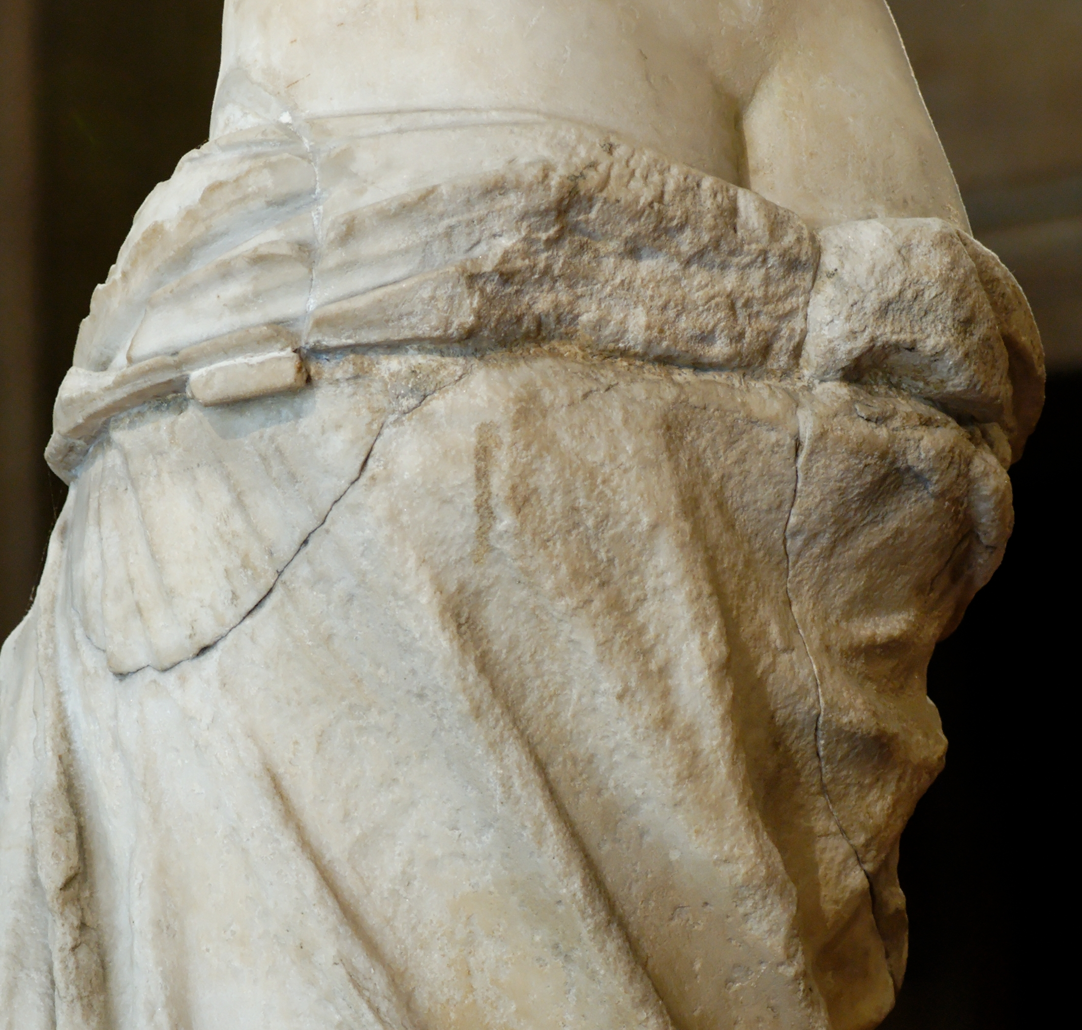 So-called “Venus de Milo” (Aphrodite from Melos), detail of the junction of the two blocks: with the burst lines of the hip fragments. Parian marble, ca. 130-100 BC? Found in Melos in 1820.